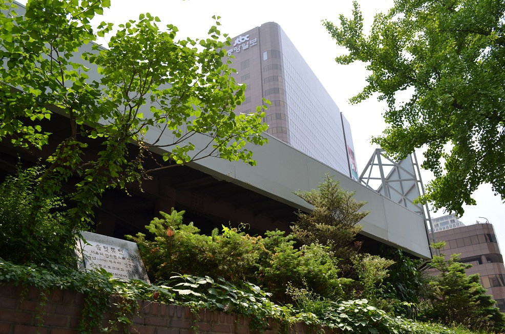 Marker for Souimun Gate, also known as Southwest Gate or Seosomun, Seoul, South Korea. Photographed July 8, 2012.